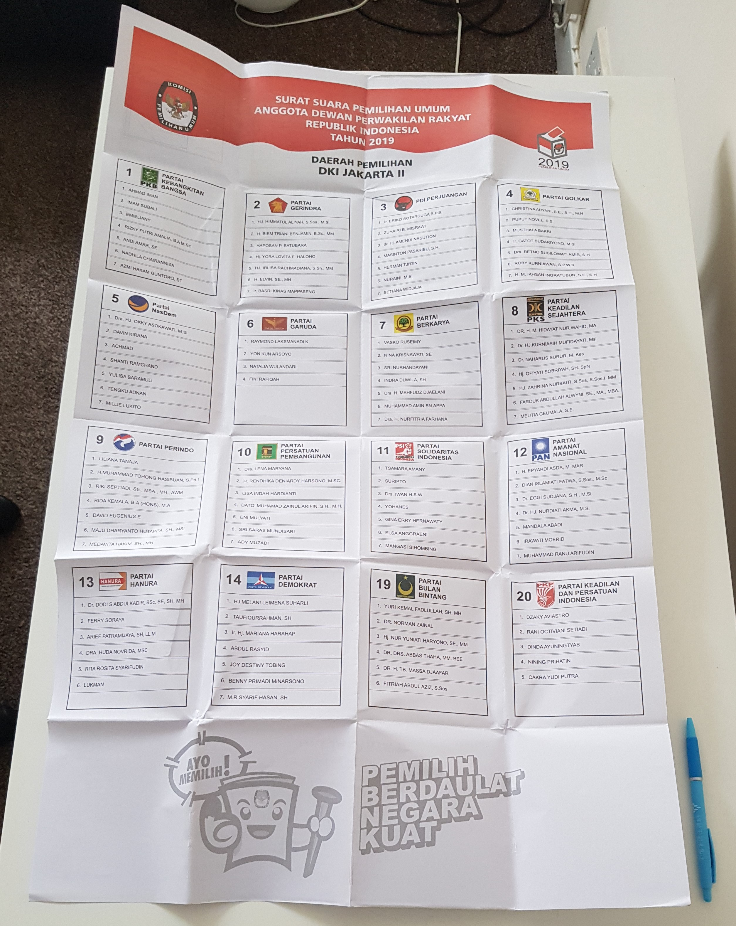 A ballot paper for Jakarta 2nd district in the People's Representative Council during the 2019 Indonesian legislative election, with a pen for comparison. The ballot was sent to an overseas Indonesian voter in the United Kingdom.